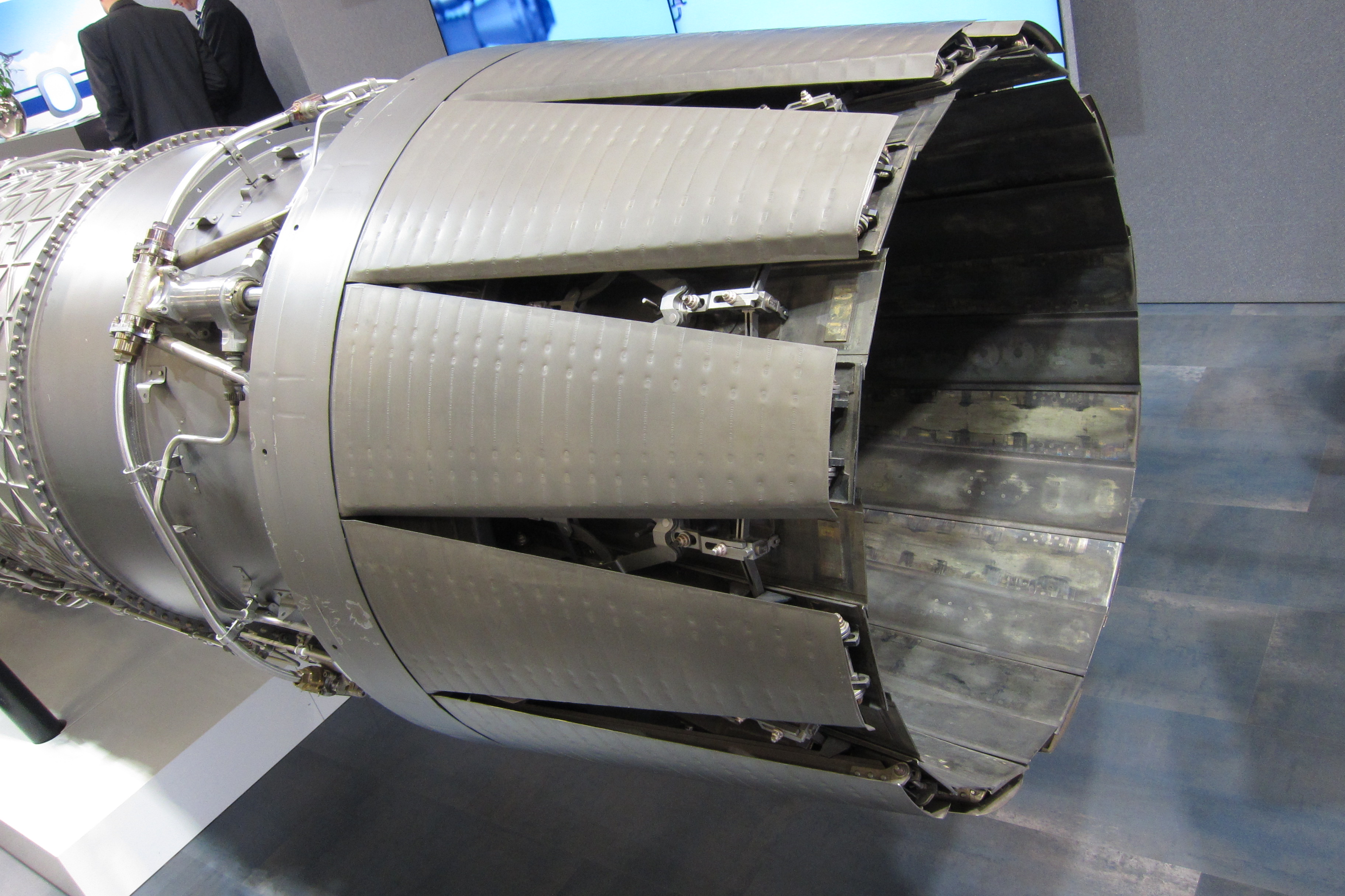 The nozzle of a Eurojet EJ200 turbofan displayed at the Paris Air Show 2013